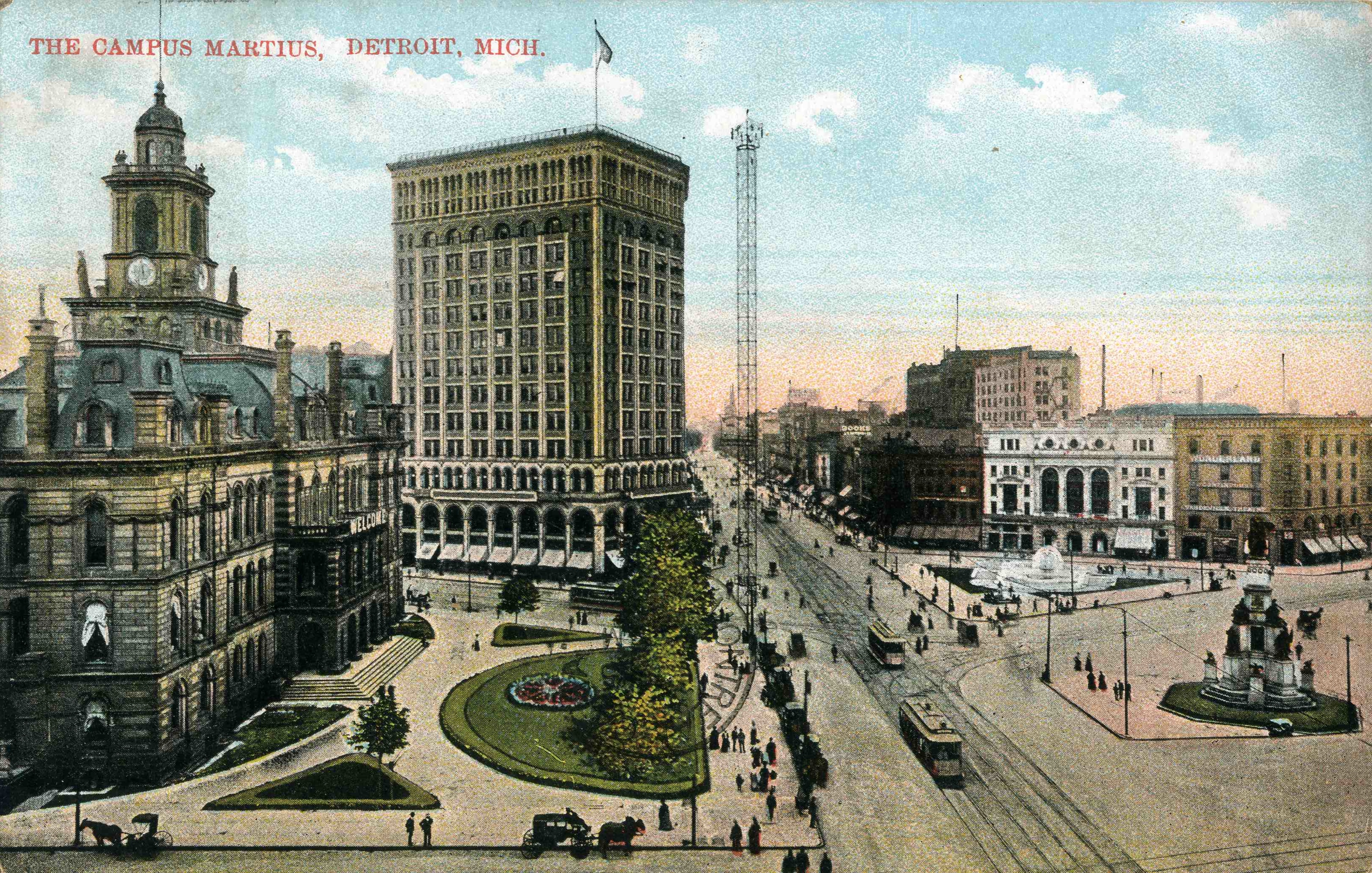 1914 view of Campus Martius Park downtown Detroit, Michigan. The park is located on Woodward Avenue (shown) at Michigan Avenue. Detroit City Hall on left.